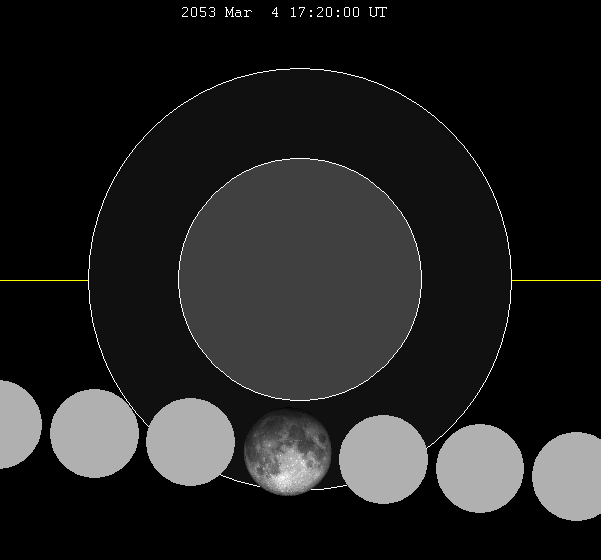 March 2053 lunar eclipse chart of moon's path through the earth's shadow. thumb